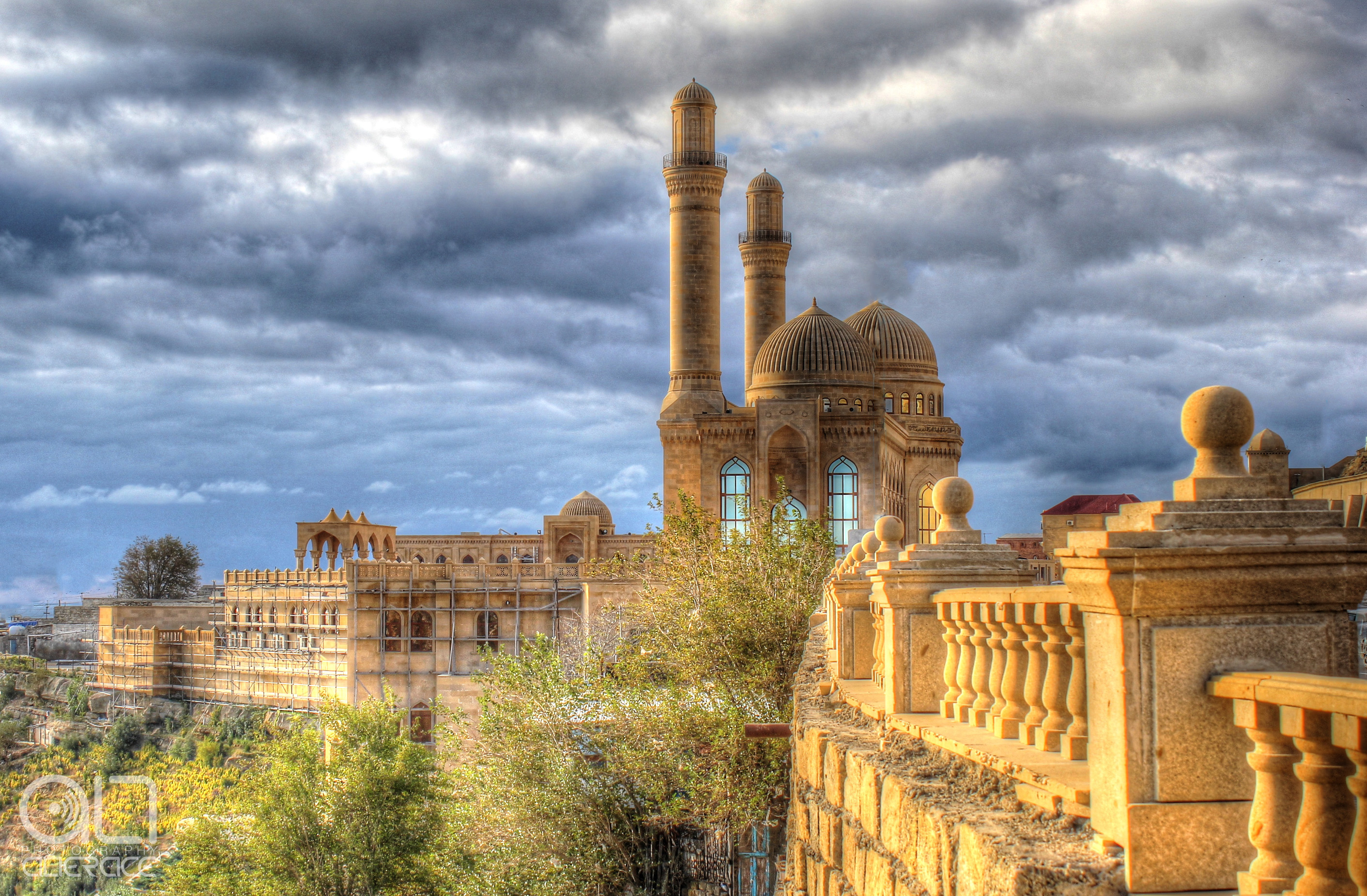 The Bibi-Heybat Mosque (Azerbaijani: Bibiheybət məscidi) is a historical mosque in Baku, Azerbaijan. The existing structure, built in the 1990s, is a recreation of the mosque with the same name built in the 13th century by Shirvanshah Farrukhzad II Ibn Ahsitan II, which was completely destroyed by the Bolsheviks in 1936. The Bibi-Heybat Mosque includes the tomb of Ukeyma Khanum (a descendant of Muhammad), and today is the spiritual center for the Muslims of the region and one of the major monuments of Islamic architecture in Azerbaijan. It is locally known as "the mosque of Fatima", which is what Alexandre Dumas called it when he described the mosque during his visit in the 1840s.